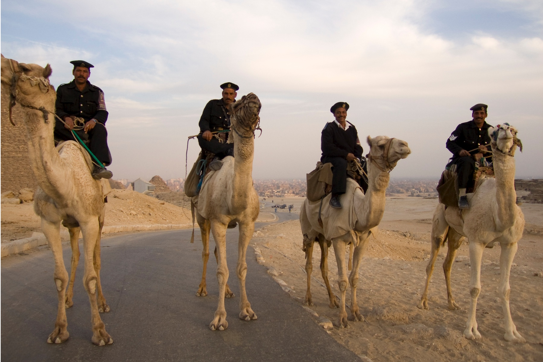 It's hard to take the local cops seriously when they take bribes for photos!